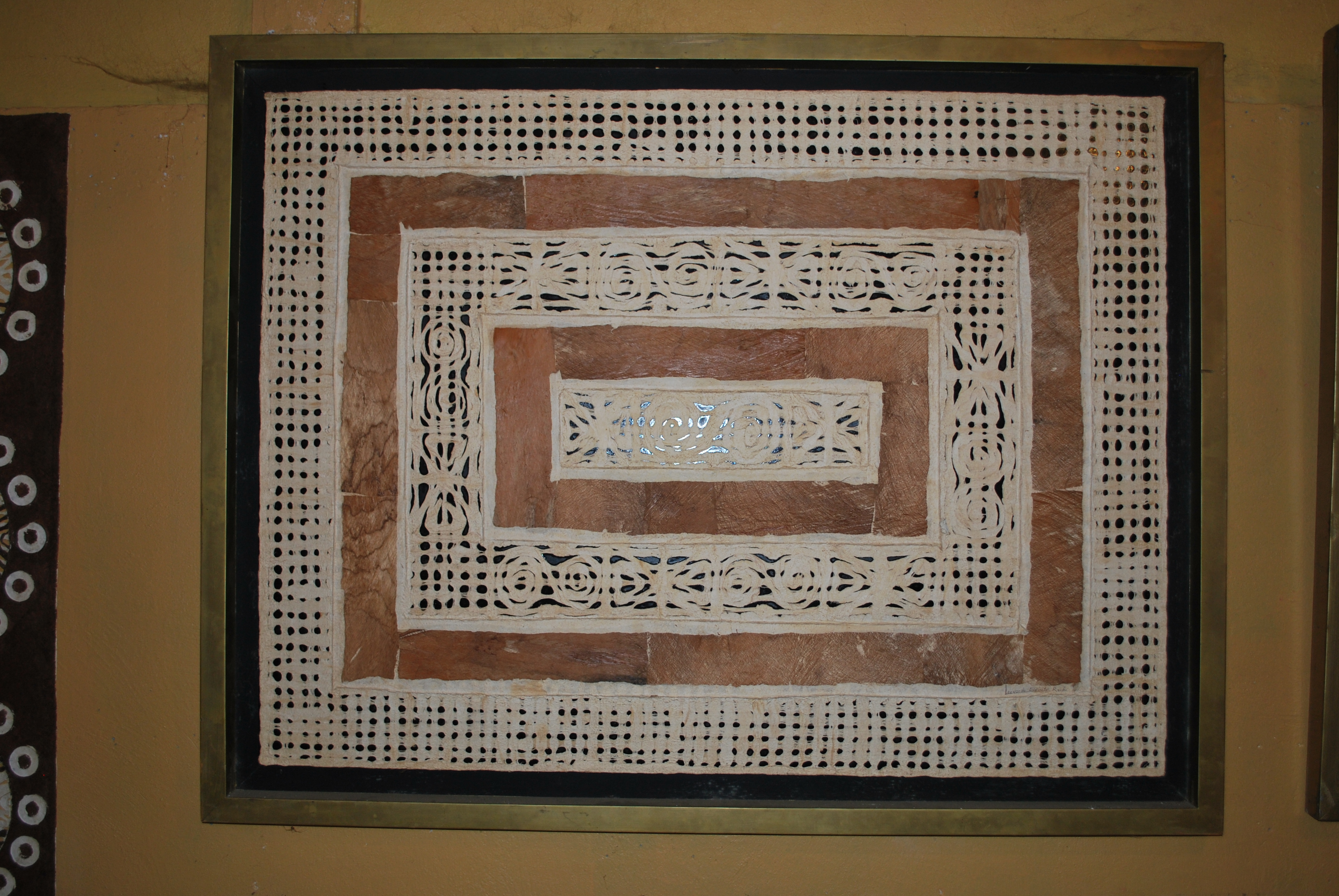 Example of amate paper work at the Gallery Museum in San Pablito, Pahuatlan, Puebla, Mexico